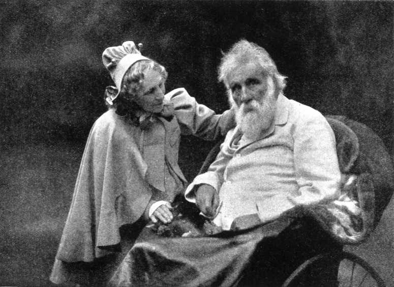 George MacDonald and his wife Louisa at their 50th anniversary.